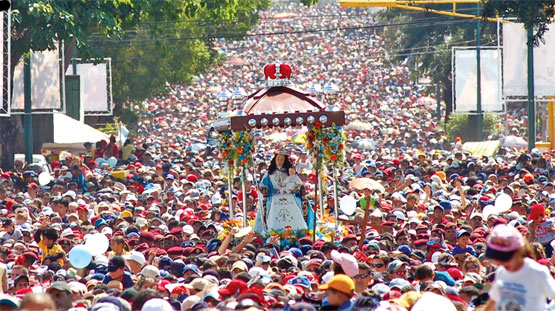 Procesión de la Divina Pastora